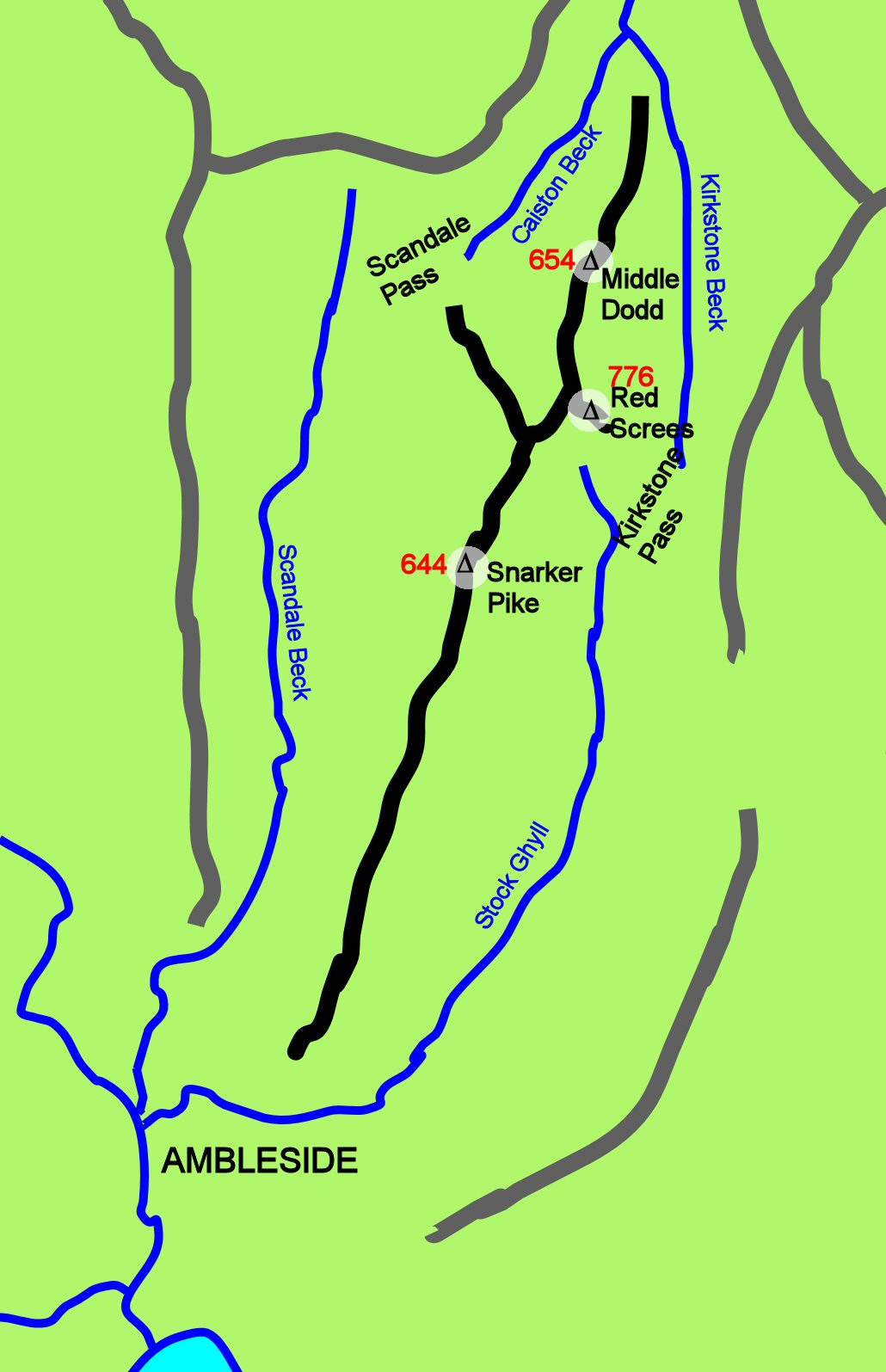 Topographical sketch map of Red Screes